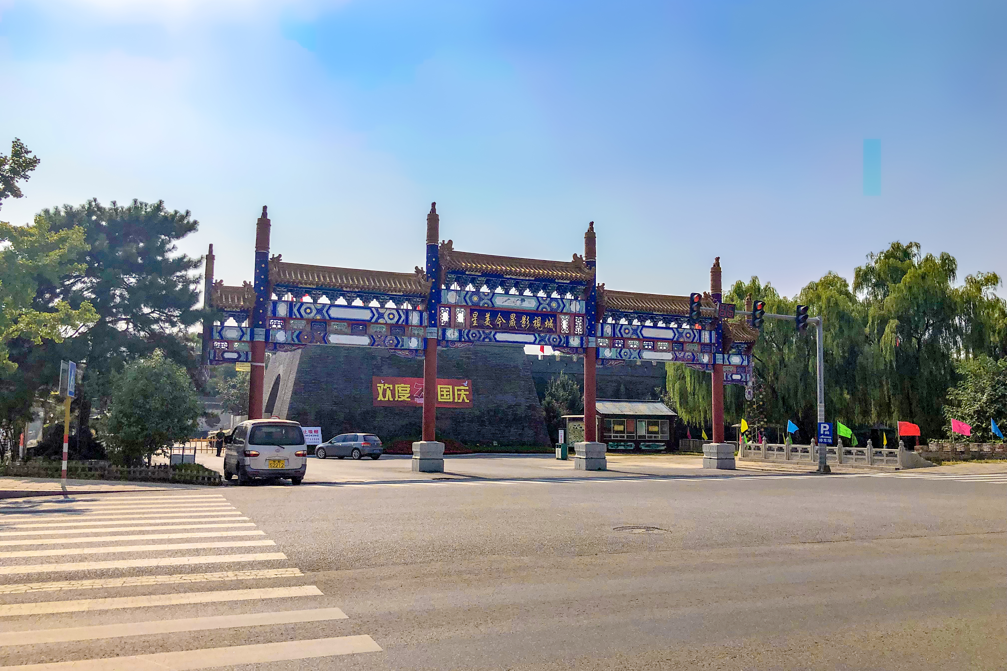 The earliest studio in Yangsong, established in 1995.